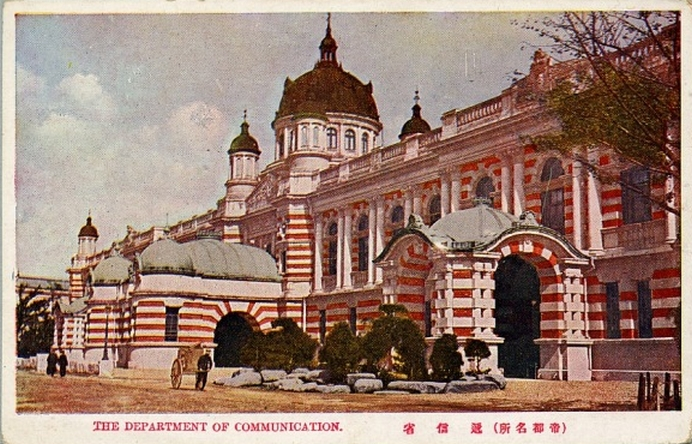 Commemorative postcard of Japanese Ministry of Communication, circa 1890s